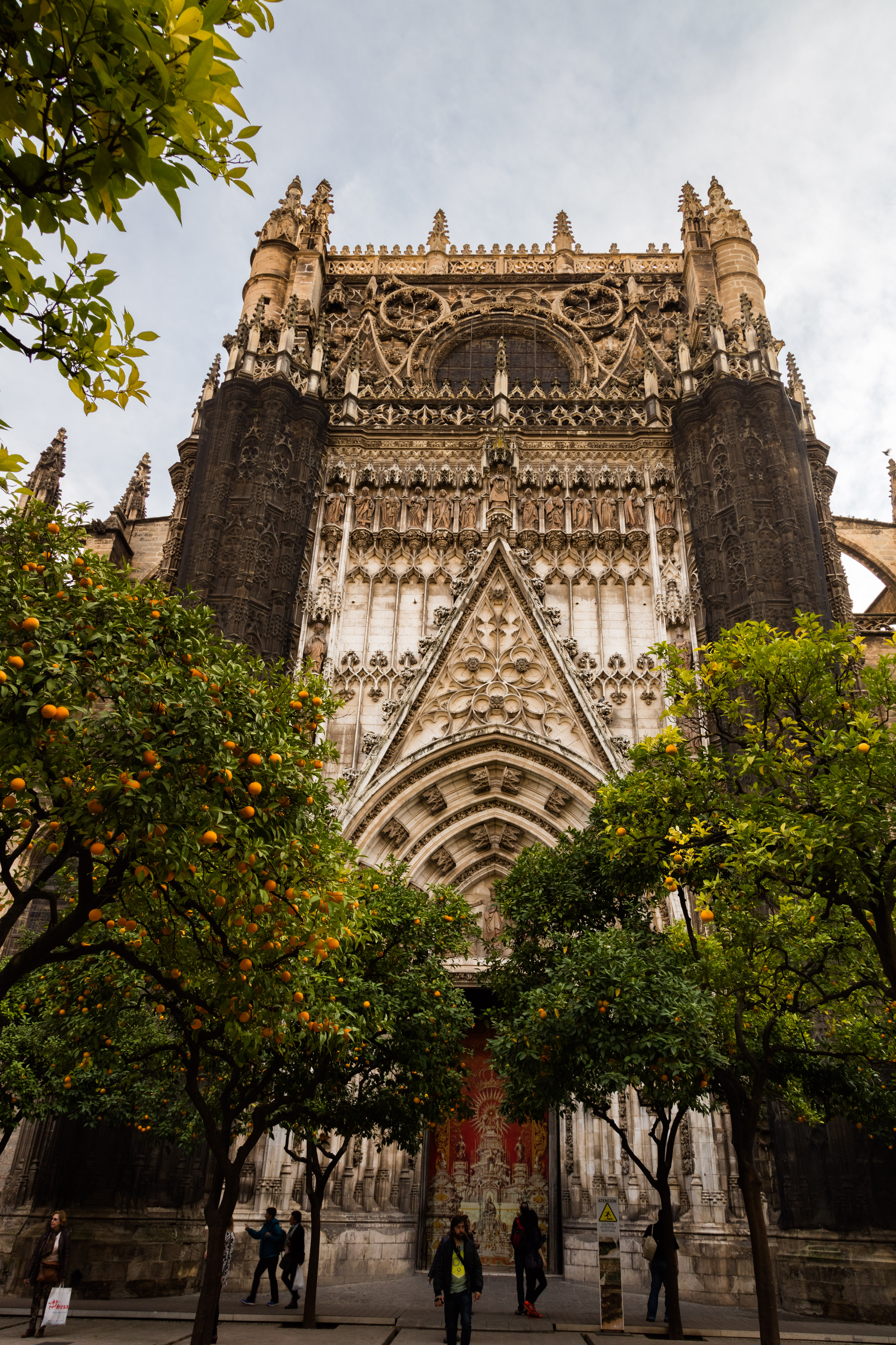 Puerta de la Concepción, Cathedral of Seville, Seville, Spain